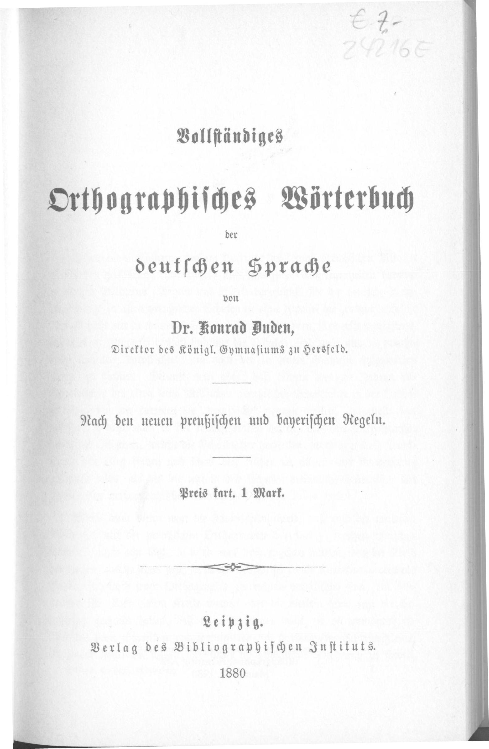 This is a scan of the historical document: Title: Vollständiges Orthographisches Wörterbuch der deutschen Sprache